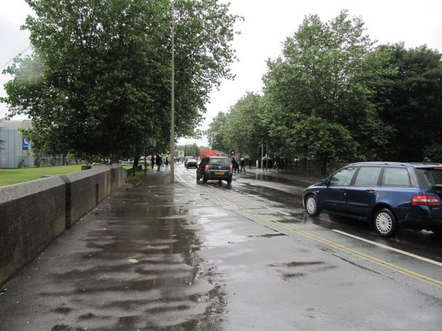 Looking towards Oxpens on Oxpens Road in Oxford, England. This area is called Oxpens. There is a college over on the right and the building you can see to the left is the ice skating rink.